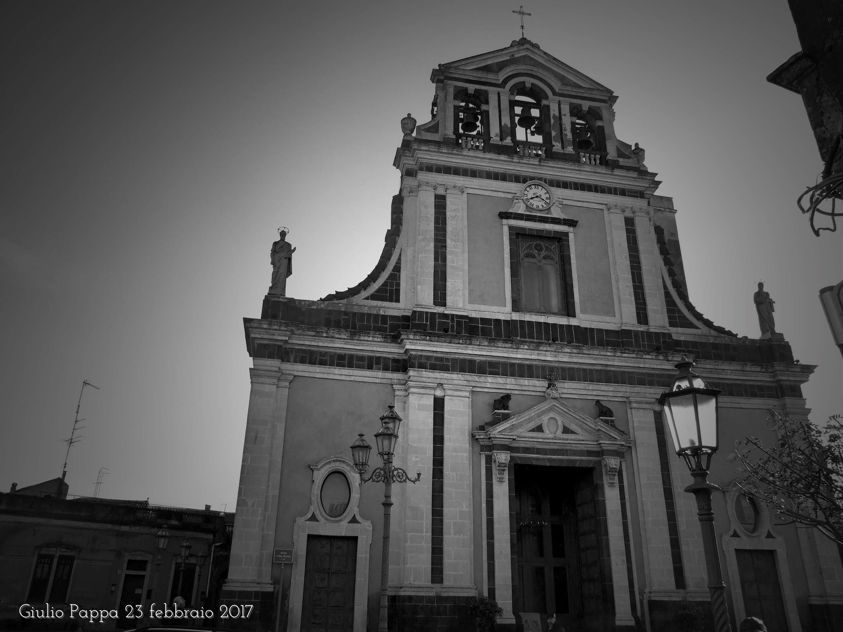 Church of Saint Vito in Mascalucia (Sicily)